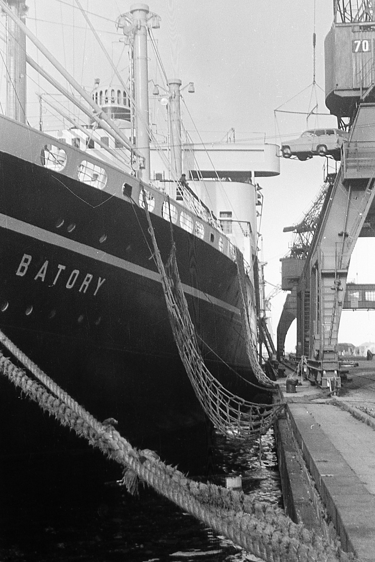 MS Batory: loading/unloading in Gdynia wharf